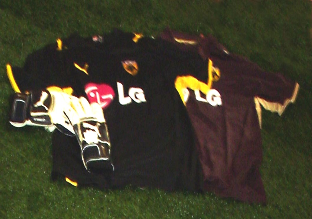 AEK_Shirt_2nd_and_3rd_2008-2009 from Athens Sports Show 2008